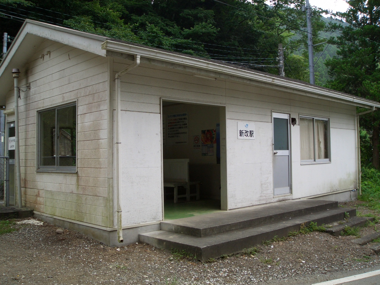 Shingai Station, 2005